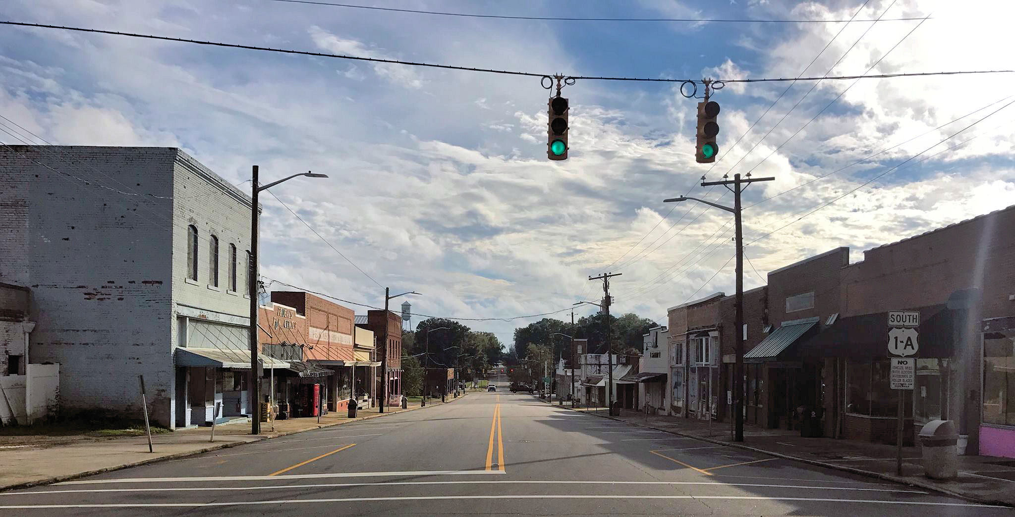 Downtown Franklinton, North Carolina, showing a view along S Main Street. The Google Street View is here.